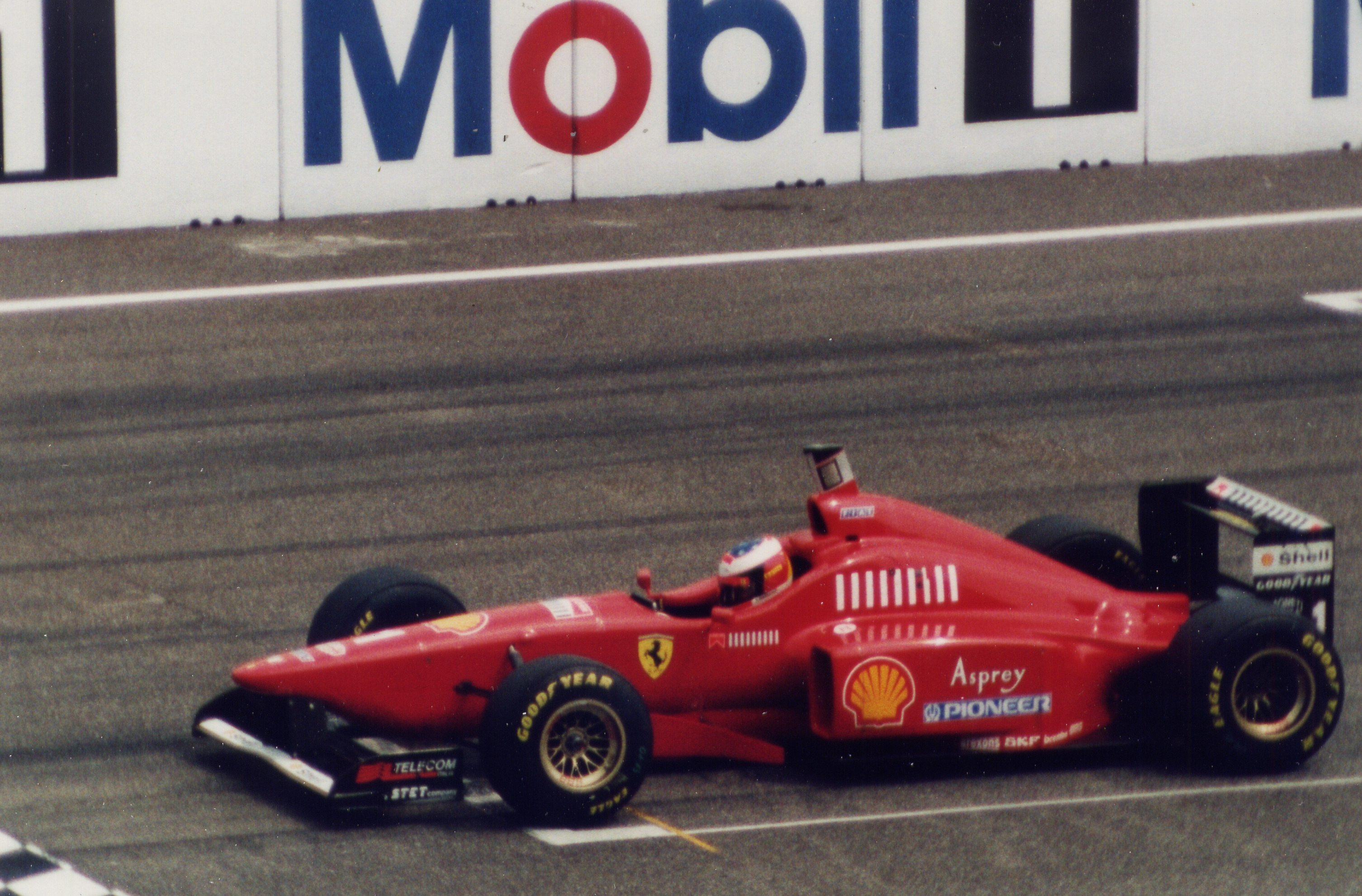 Ferrari F310 (high nose), Michael Schumacher, German Grand Prix 1996 (Free Practice)